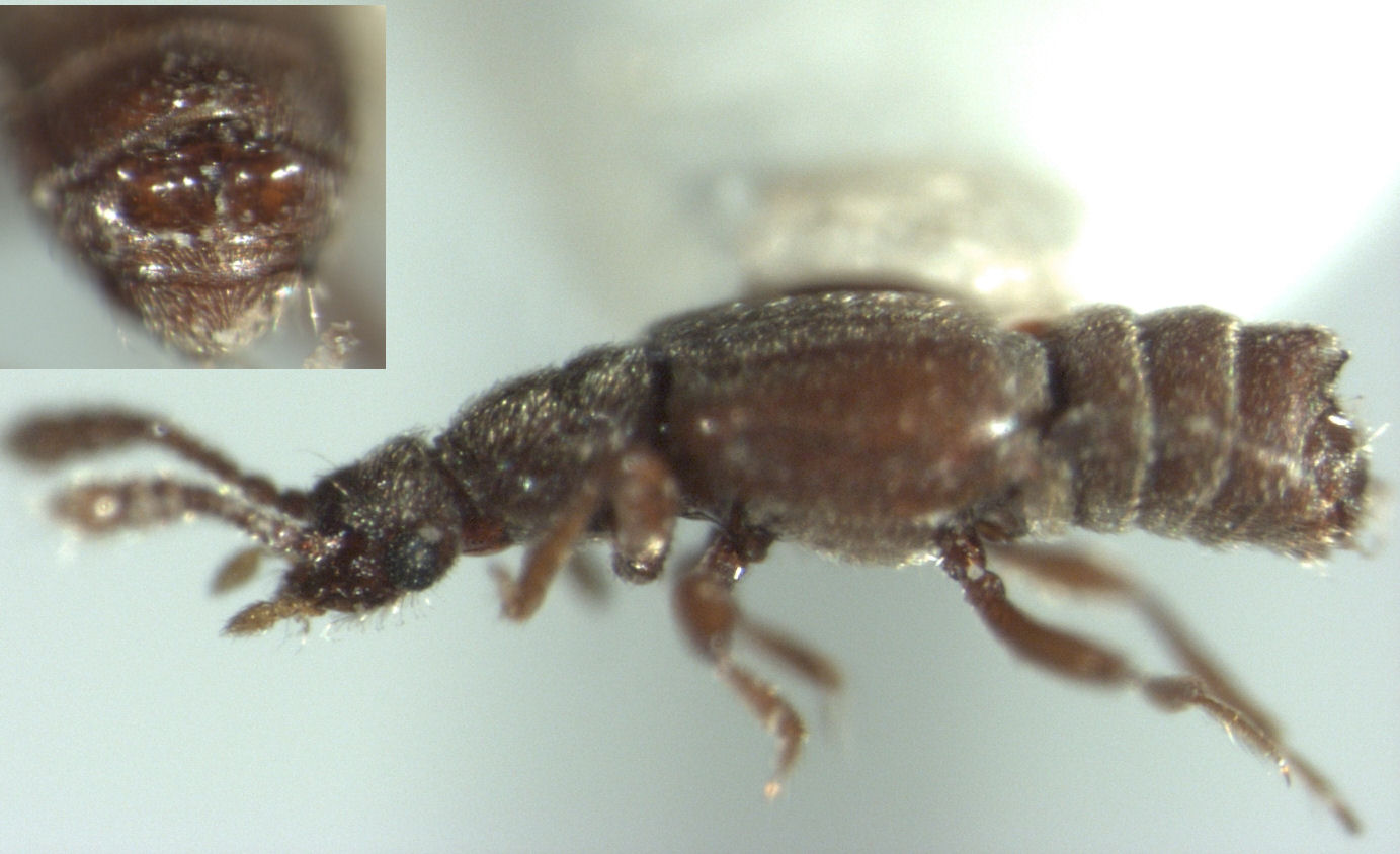 adult Euplectus tuberigerus?